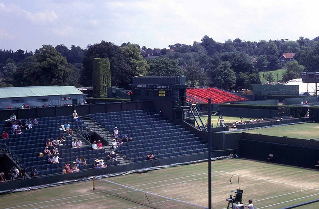 Wimbledon 1991 - Looking across Court No 2, near to Wimbledon, Merton, Great Britain.